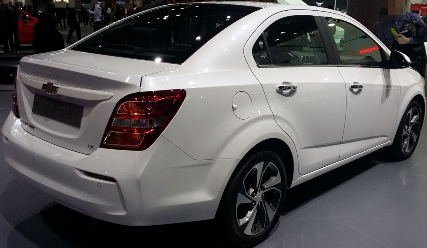 Chevrolet The New Aveo